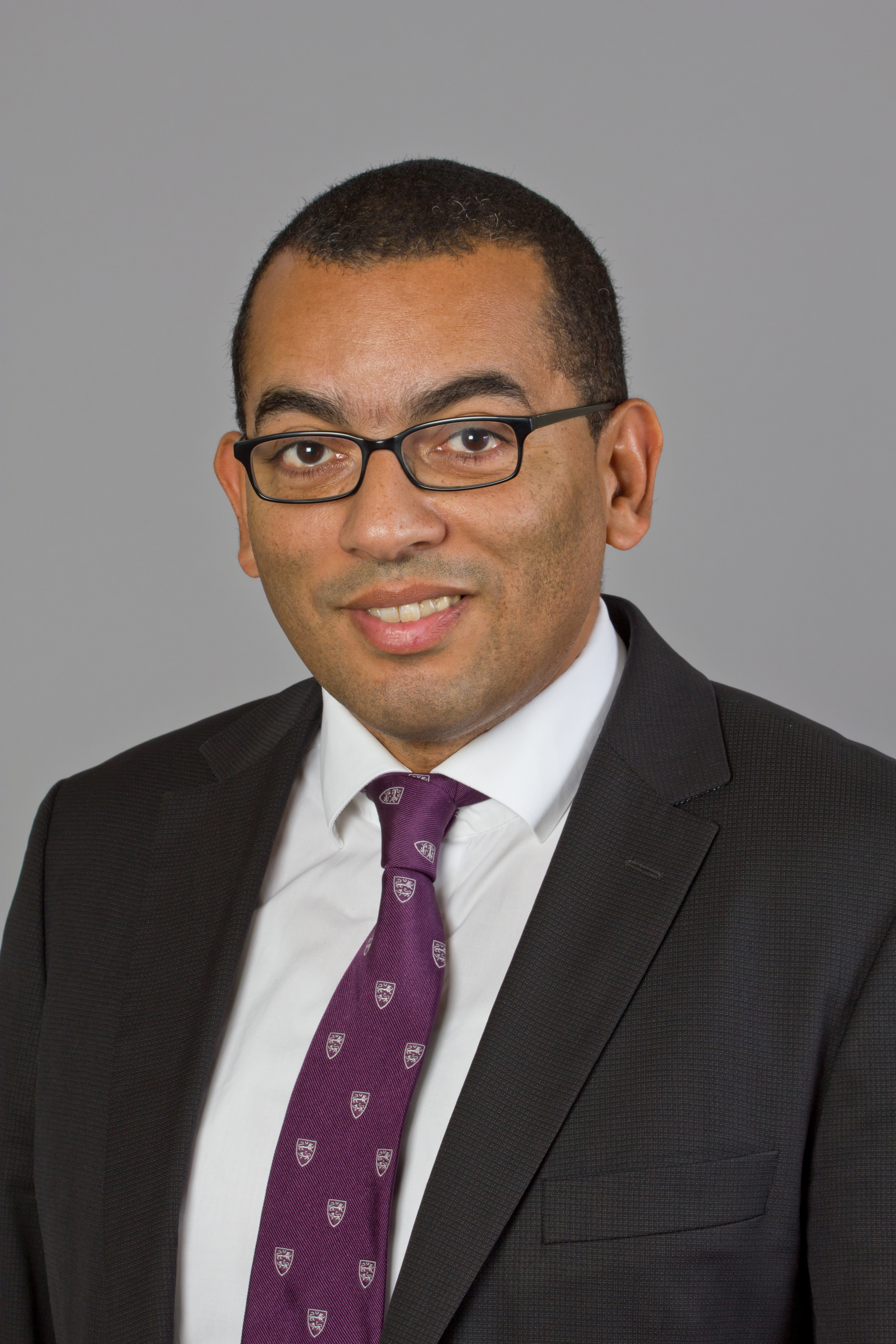 Robert Schaddach, politician from Germany, member of Abgeordnetenhaus of Berlin (as of 2013)